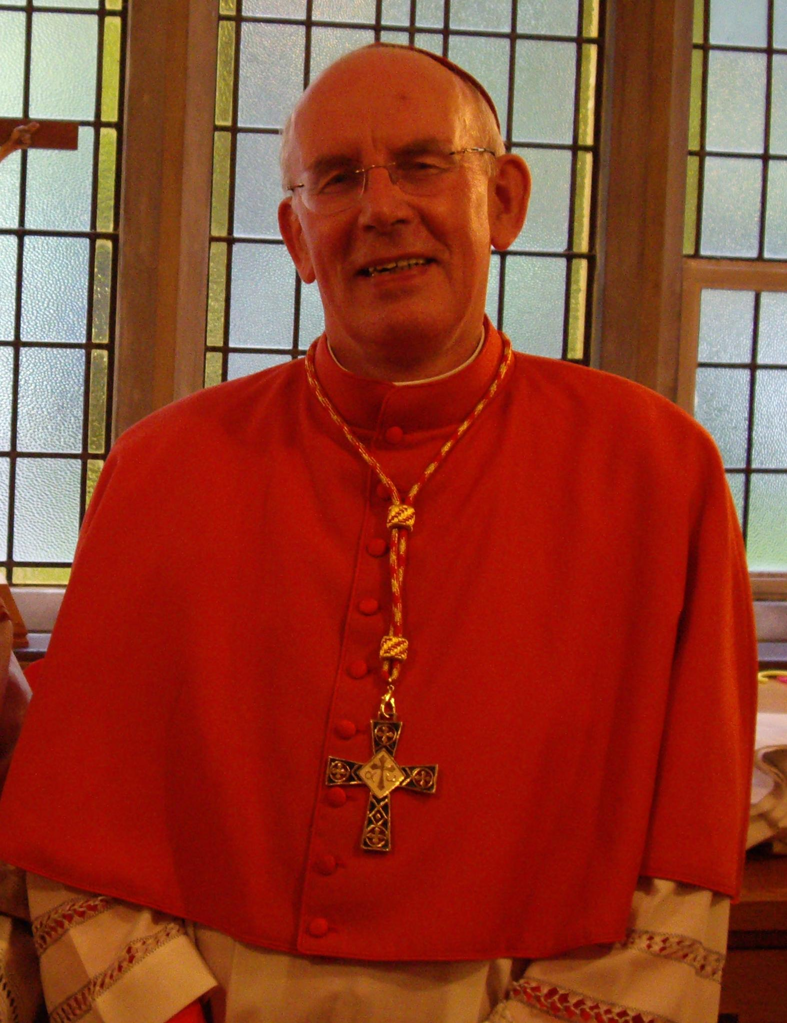 Cardinal Sean Baptist Brady photographed at St Ann's Church Stretford at the celebration of the Diamond Jubilee of the ordination of Mgr Arthur Keegan